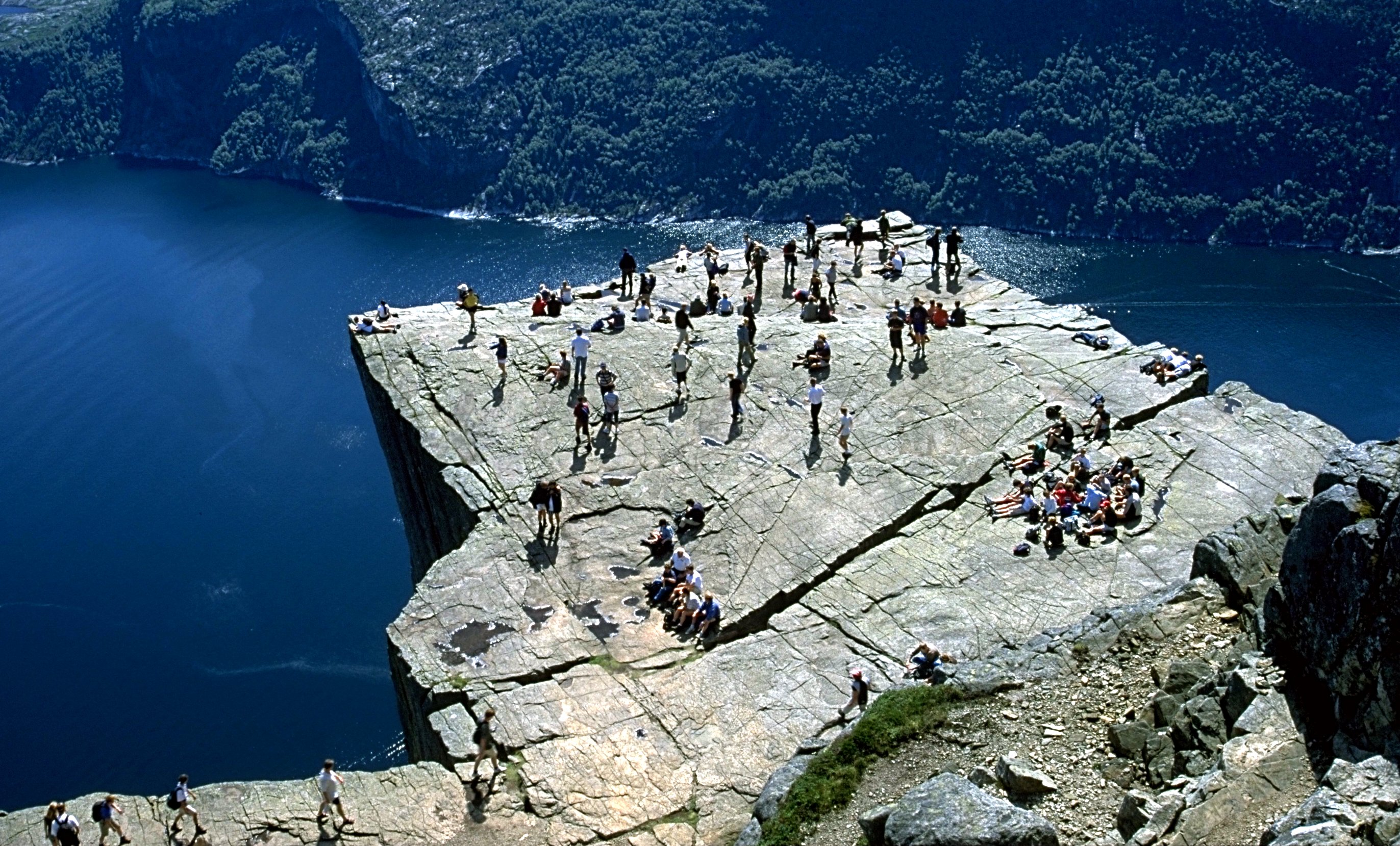 Preikestolen Photo was taken using the following technique: Film: Fuji Velvia Lens: 2.4/100 Macro Filter: none Body: Minolta Dynax 7 Support: Manfrotto 190B Image with Information in English Bild mit Informationen auf Deutsch